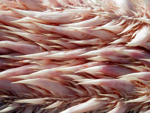 Leatherback turtle esophagus (Dermochelys coriacea)